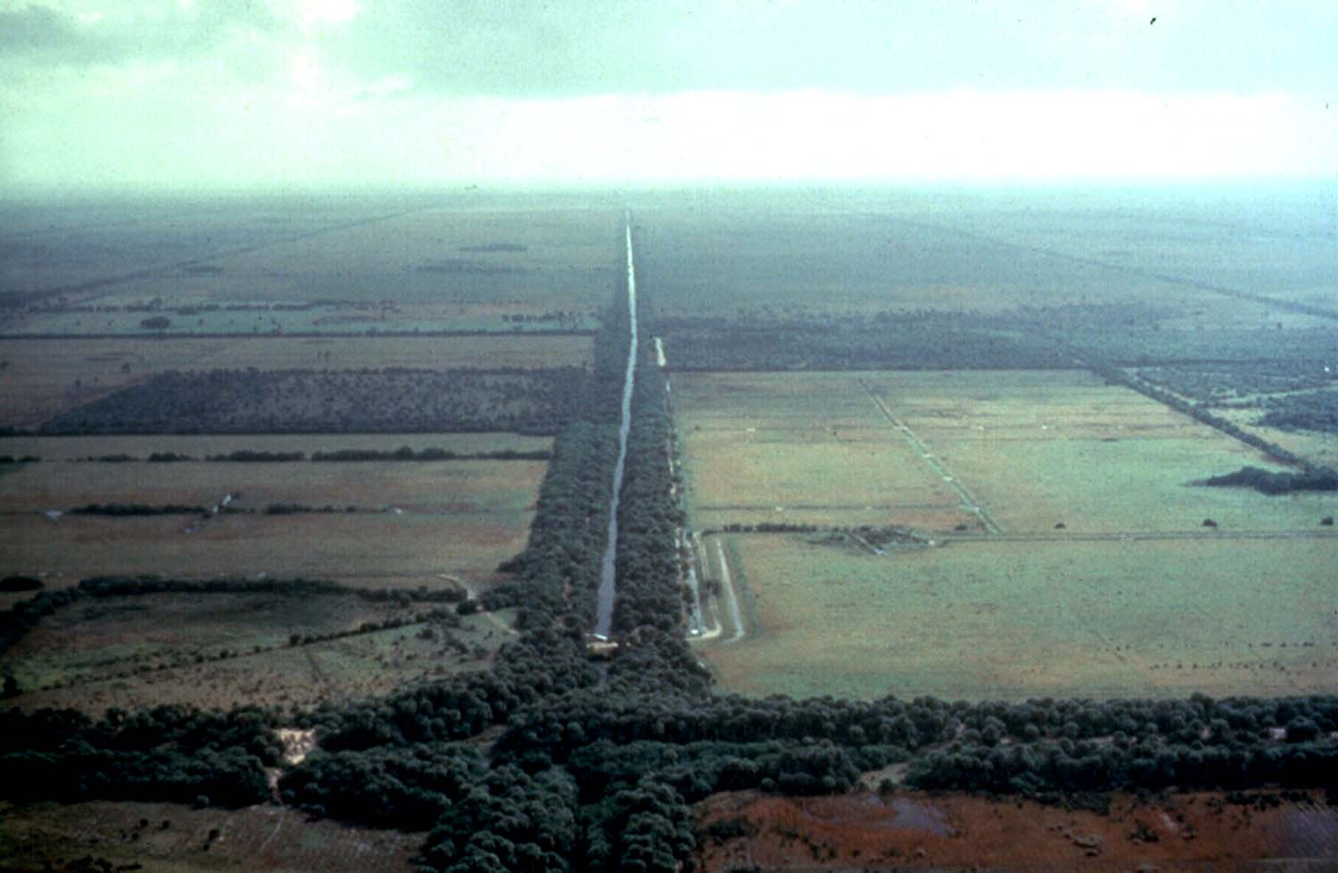 Drainage ditches in the upper St. Johns River basin in Indian River County or Brevard County, Florida, USA. The drainage area was constructed by the U.S. Army Corps of Engineers to drain the wetlands and protect nearby cities from flooding. Coordinates: 27°46′35.47″N 80°39′30.71″W / 27.7765194°N 80.6585306°W